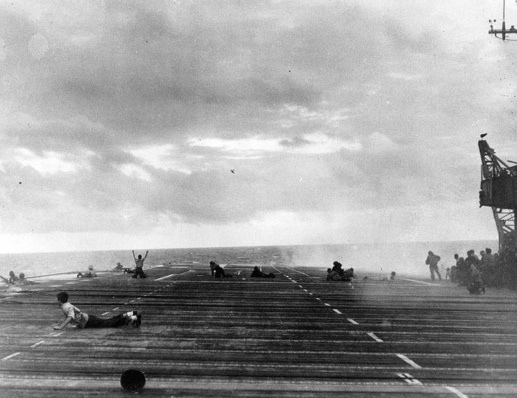 Scene on the flight deck of USS Langley (CVL-27), looking forward, as the carrier shoots down a Japanese plane during air attacks on Task Force 38 off Formosa, 14 October 1944. The falling plane is visible directly ahead of the ship.